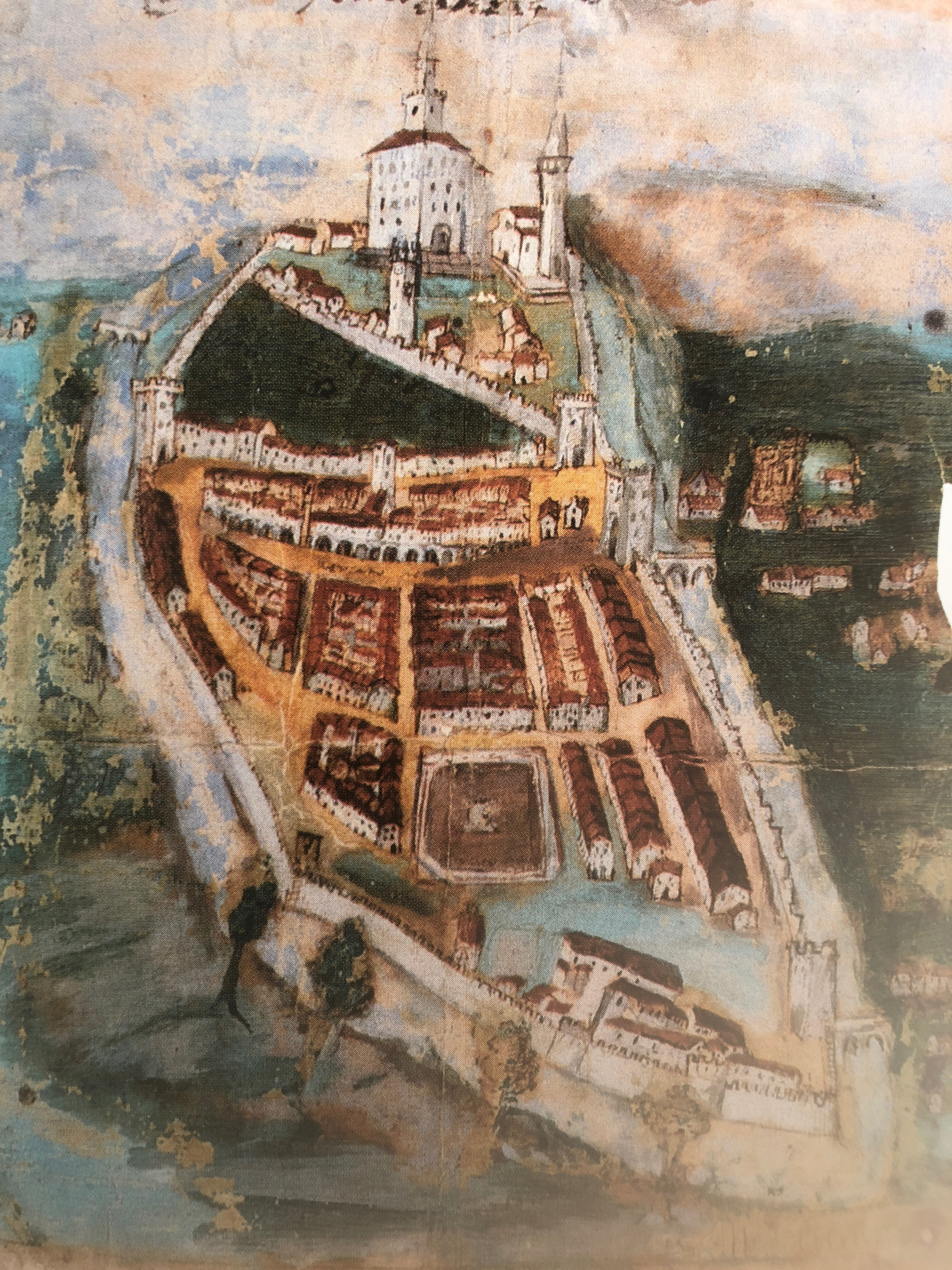 Mappa seconda cerchia